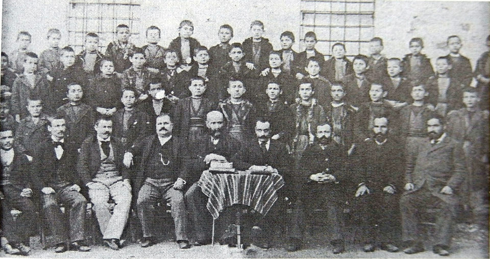 Teachers and Students in the Great Greek School in Kastoria circa 1890